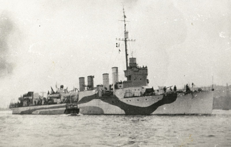 The Soviet destroyer Doblestnyi. Undated, location unknown.